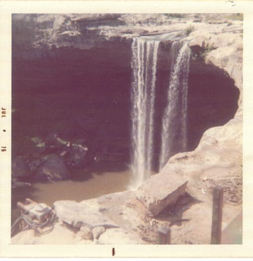 Noccalula Falls Park in Gadsden. I took photo with Kodak camera in July 1975.